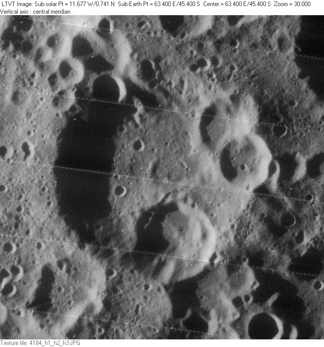 Crater Vega . Detail from Lunar Orbiter IV-184H. High resolution scans from the USGS Lunar Orbiter Digitization Project remapped to a north-up aerial view by LTVT.